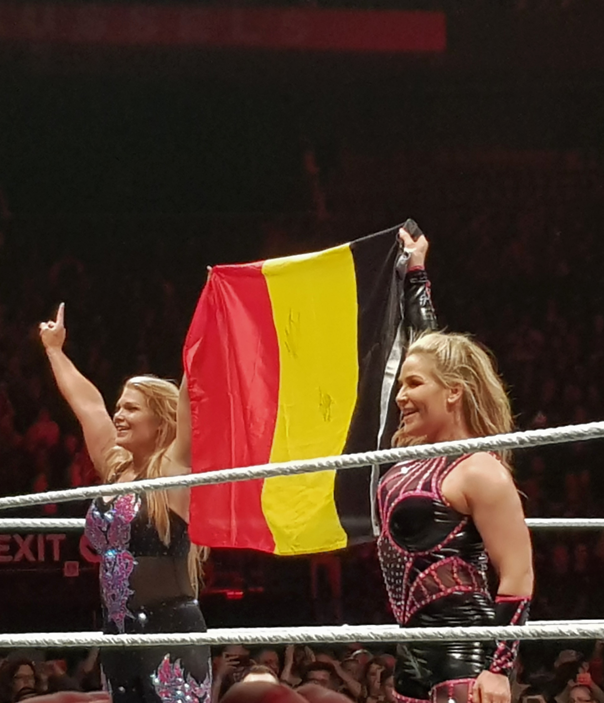 WWE Live 2019 - Forest National WWE Live 2019 - Forest National